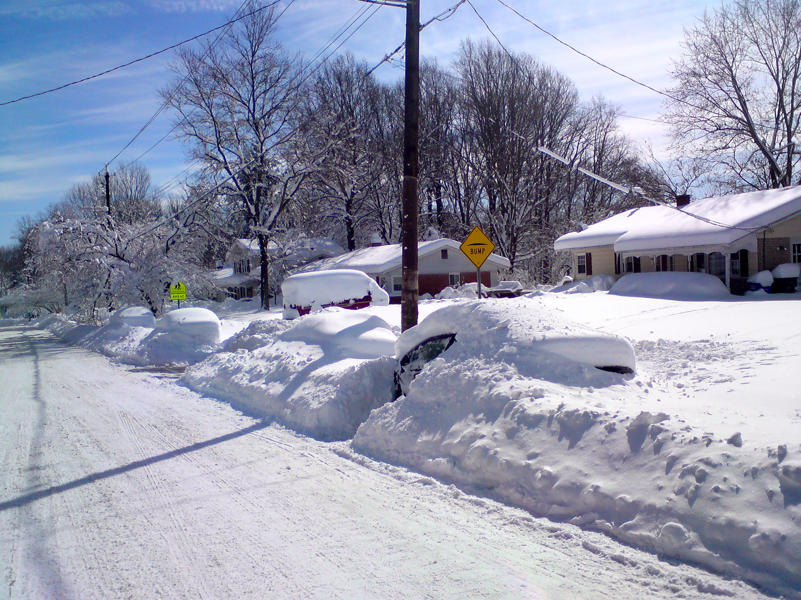 Cars buried in Snow, Rockville, Maryland, USA, following the North American blizzard of 2010